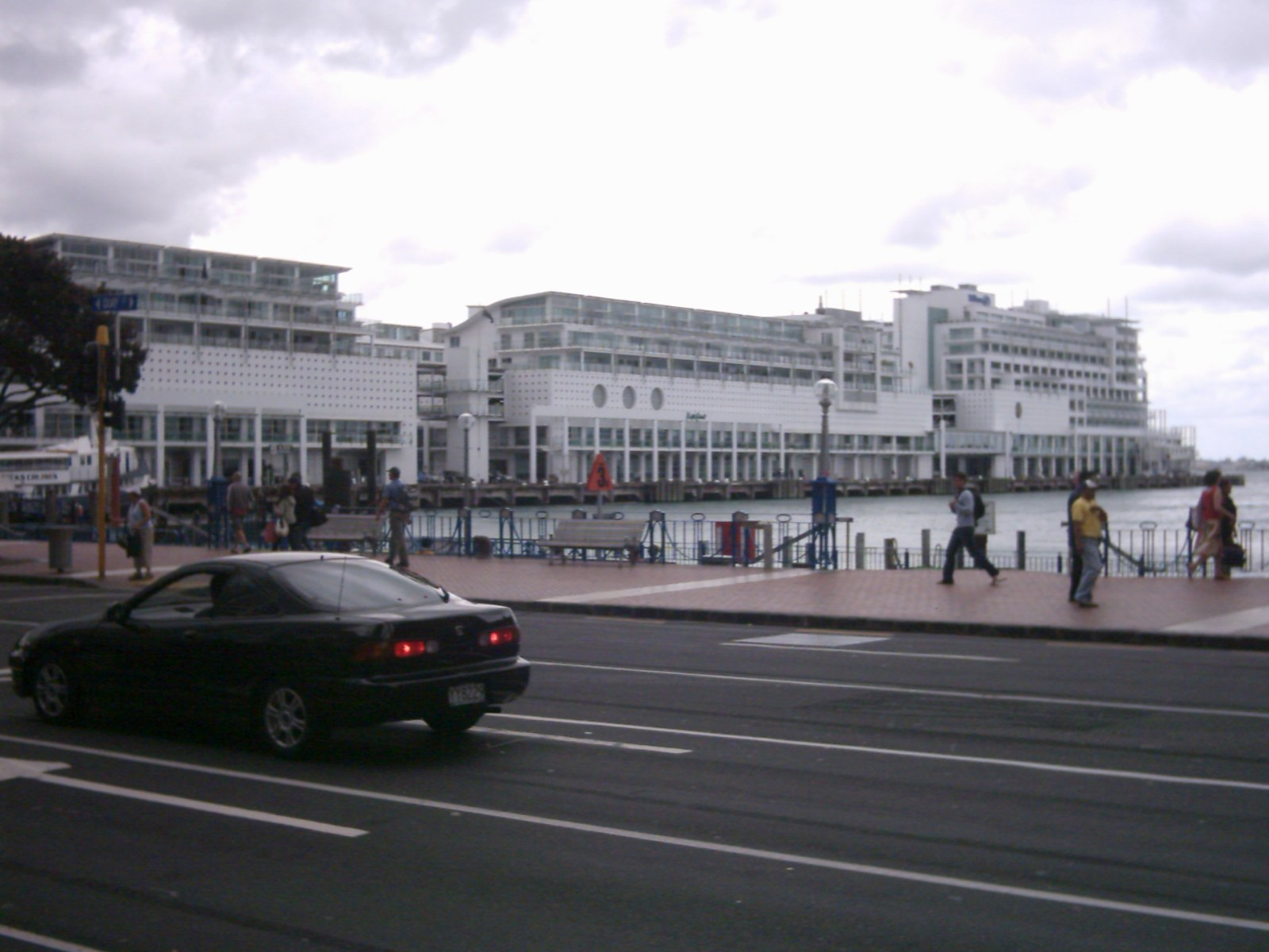 The Princes Wharf development in Auckland City, New Zealand, as seen from Quay Street looking northwest.